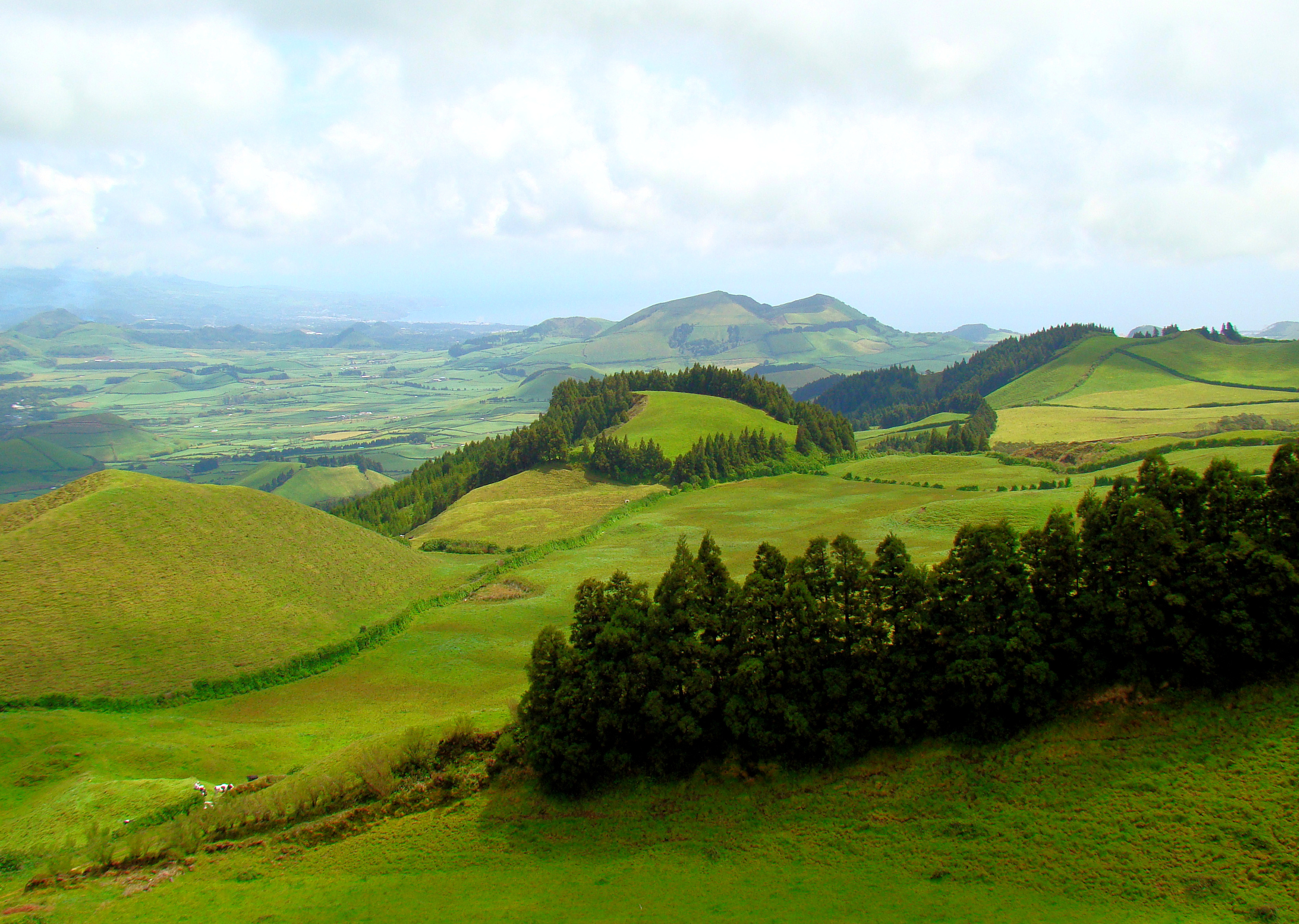 Typical rural landscape of western São Miguel island in the Azores. The land is fully taken advantage of by farmers. Cows are grazing everywhere. Instead of fences to keep different patches apart, a combination of stone walls and thorny bushes are used.